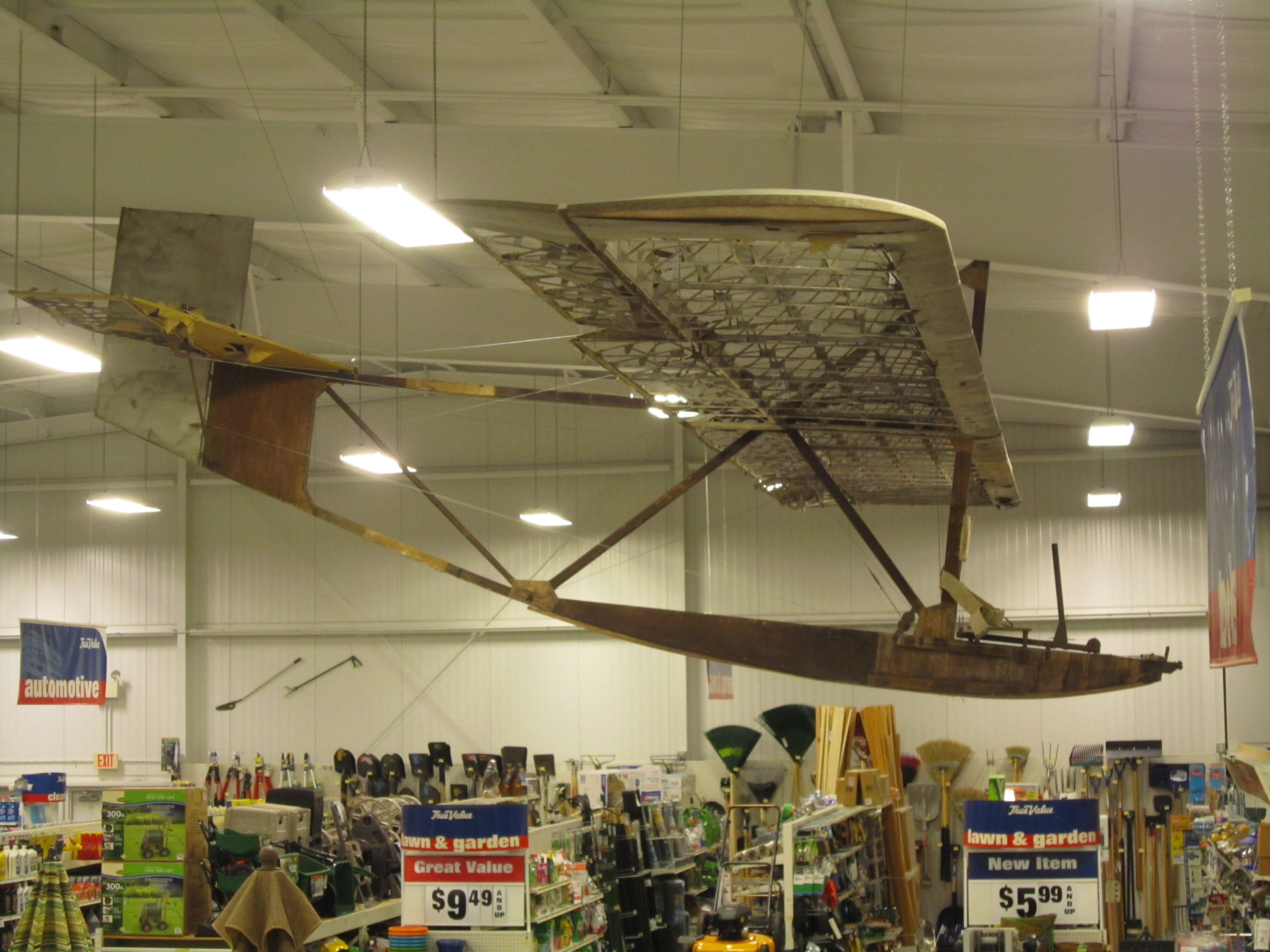 Detroit Gull on display